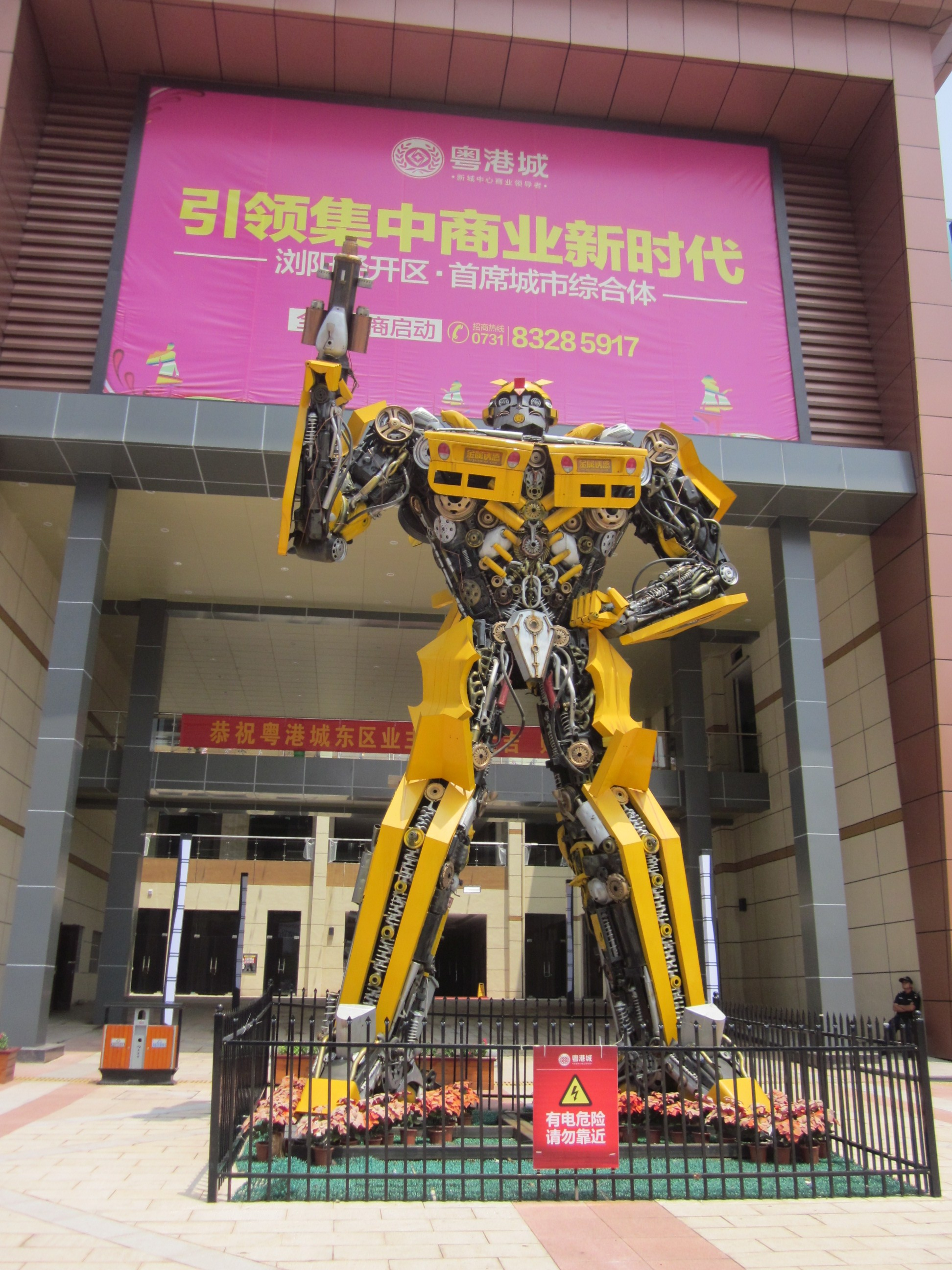 A replica of Bumblebee, located in Dongyang Town, Liuyang City, Hunan Province, China.